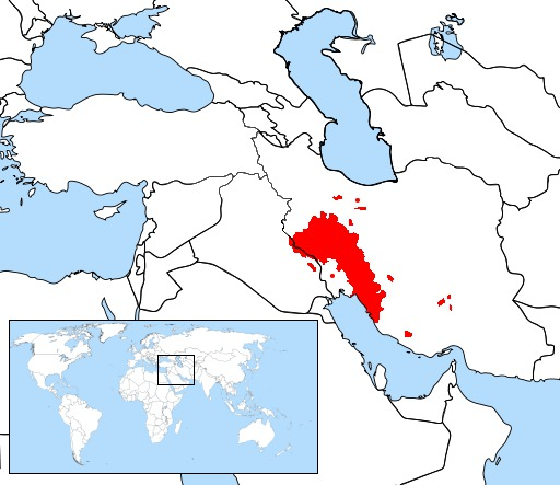 Lur peoples geographical map